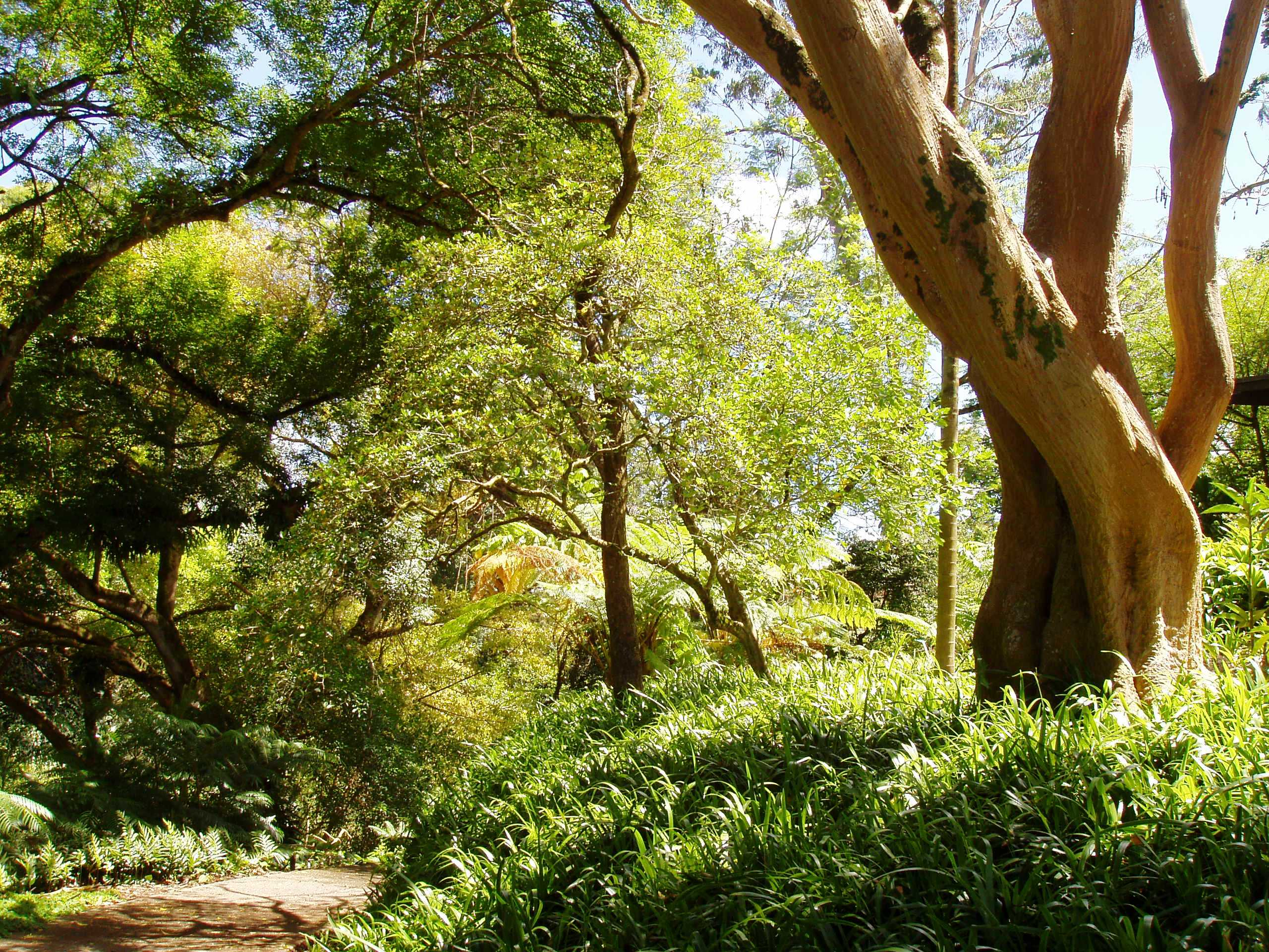 Wahiawa Botanical Garden - shady park view.